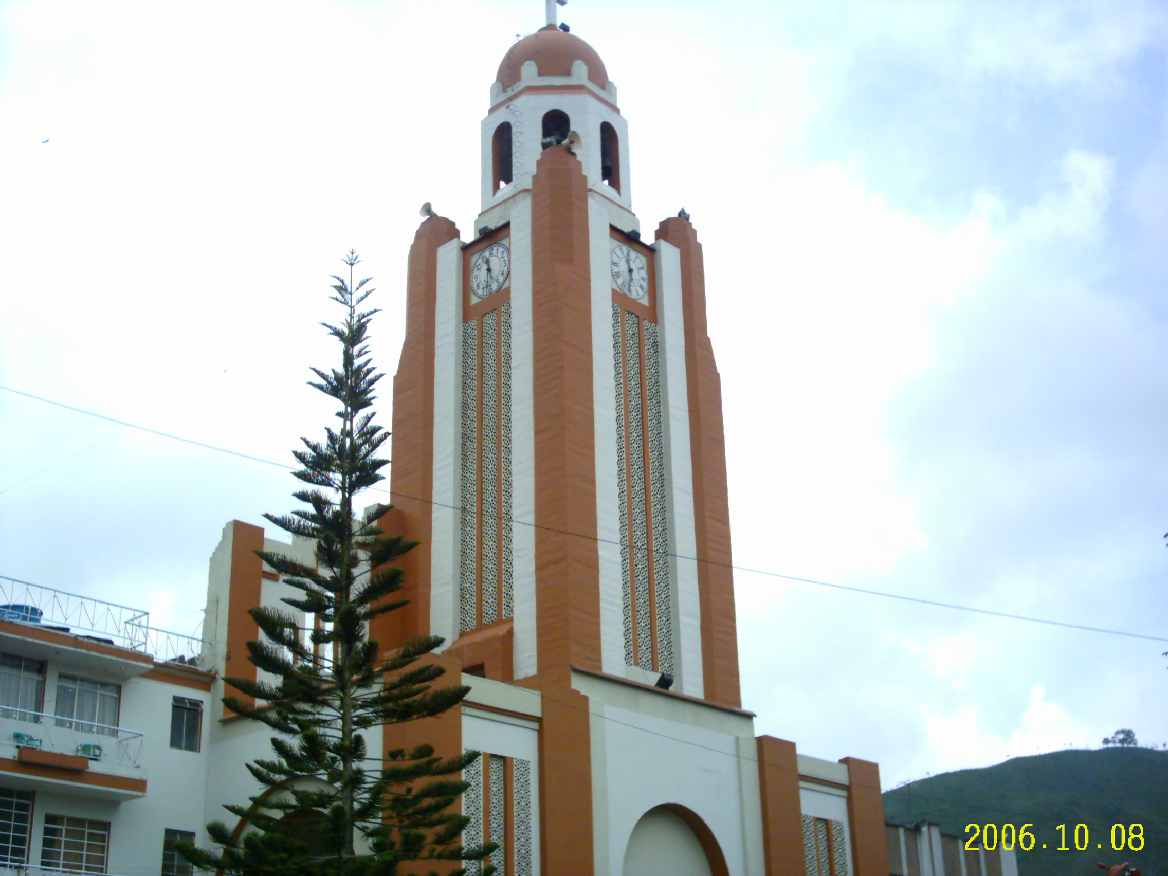 Iglesia del Perpetuo Socorro in Fresno, Tolima, Colombia.